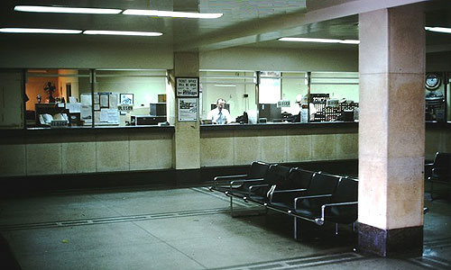 Ticket counter and waiting room at North Philadelphia station in August 1978